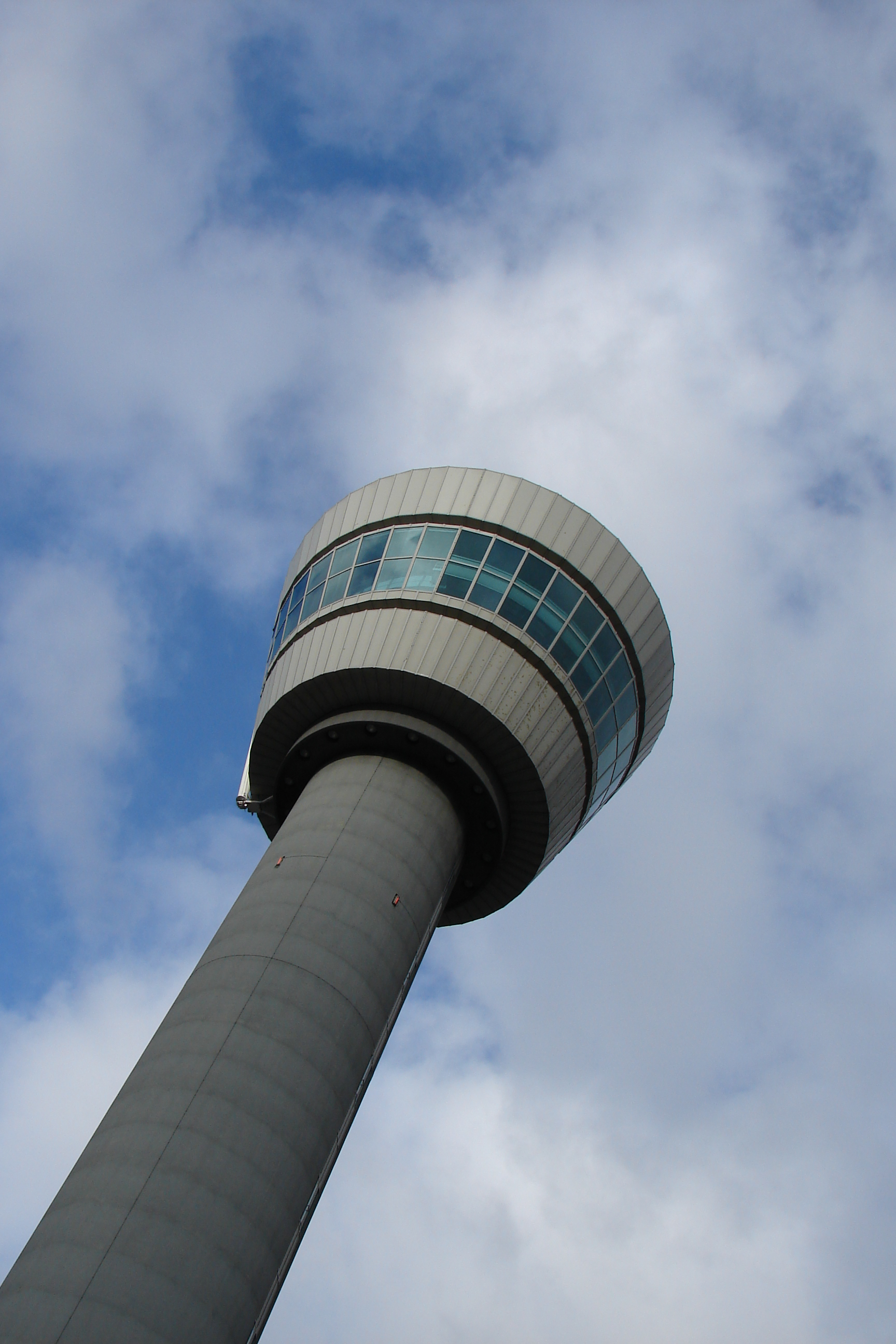 Picture take from the base of EHAM TOWER, Schiphol Airport